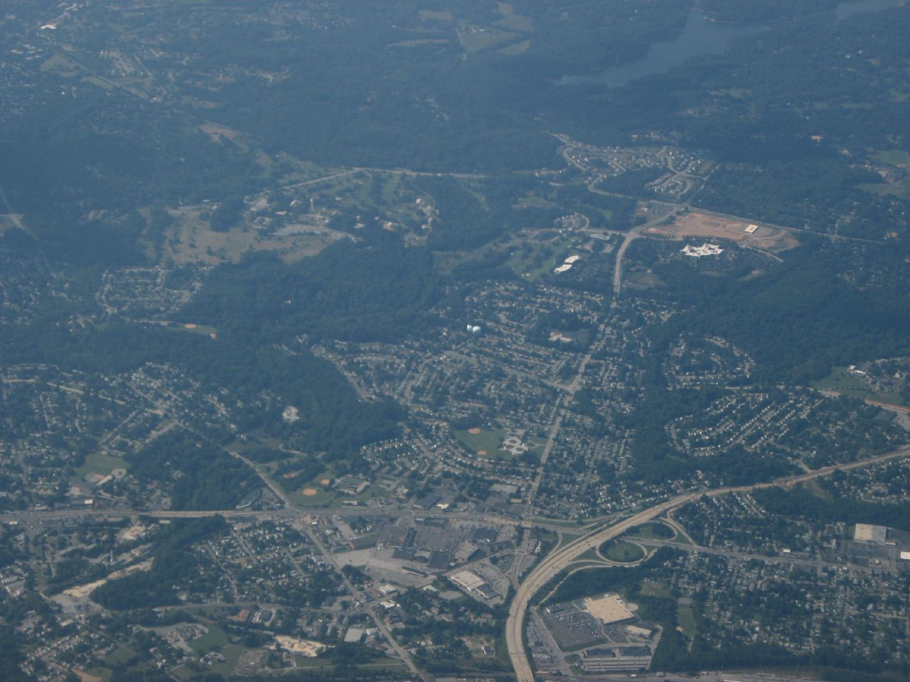 Prices Corner is an unincorporated community in New Castle County, Delaware, United States. Prices Corner is located at the intersection of Delaware Route 2/Delaware Route 41 and Delaware Route 141 west of Wilmington. The Prices Corner Shopping Center is located in Prices Corner.